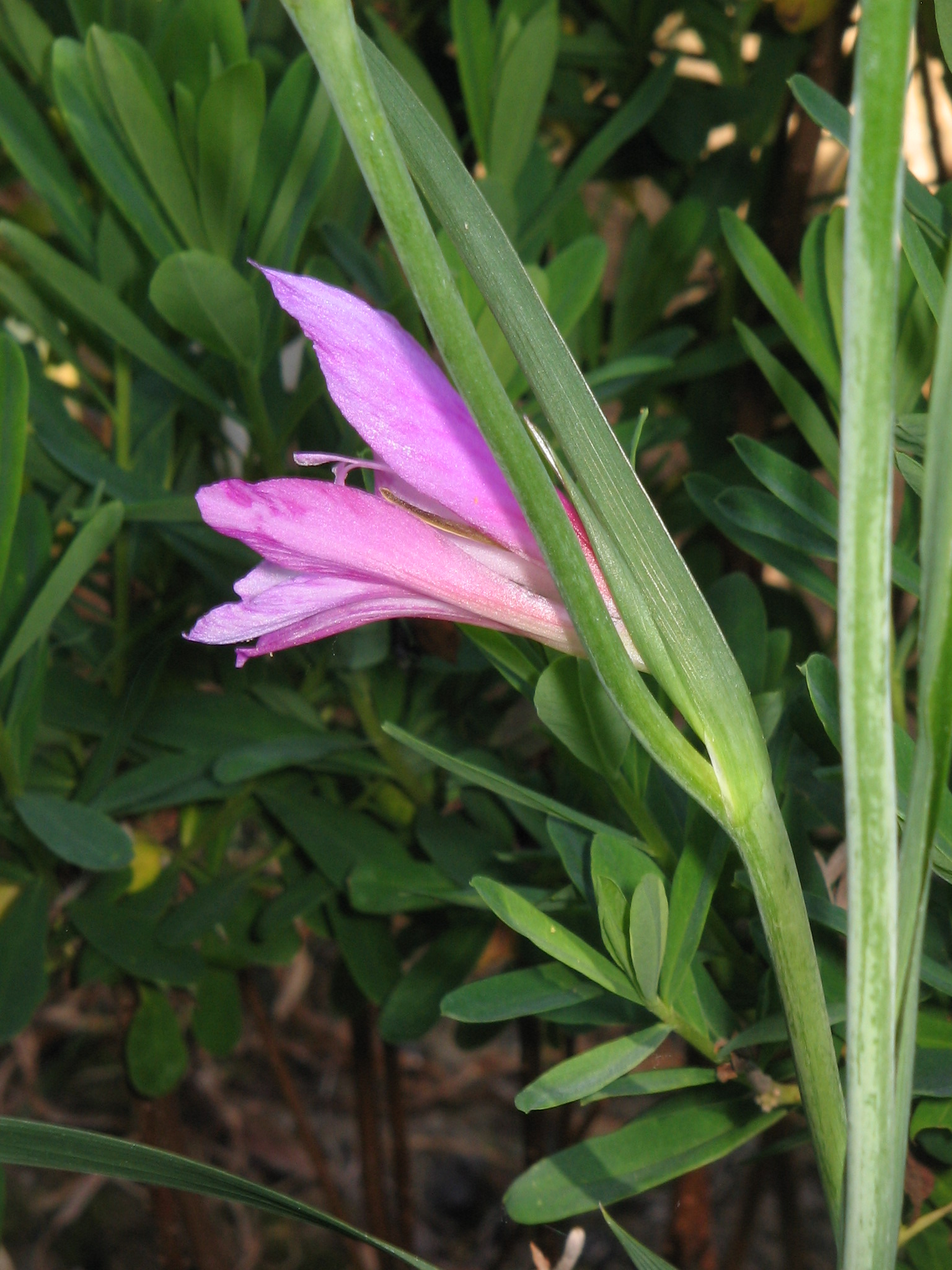 Gladiolus italicus close-up opening flower